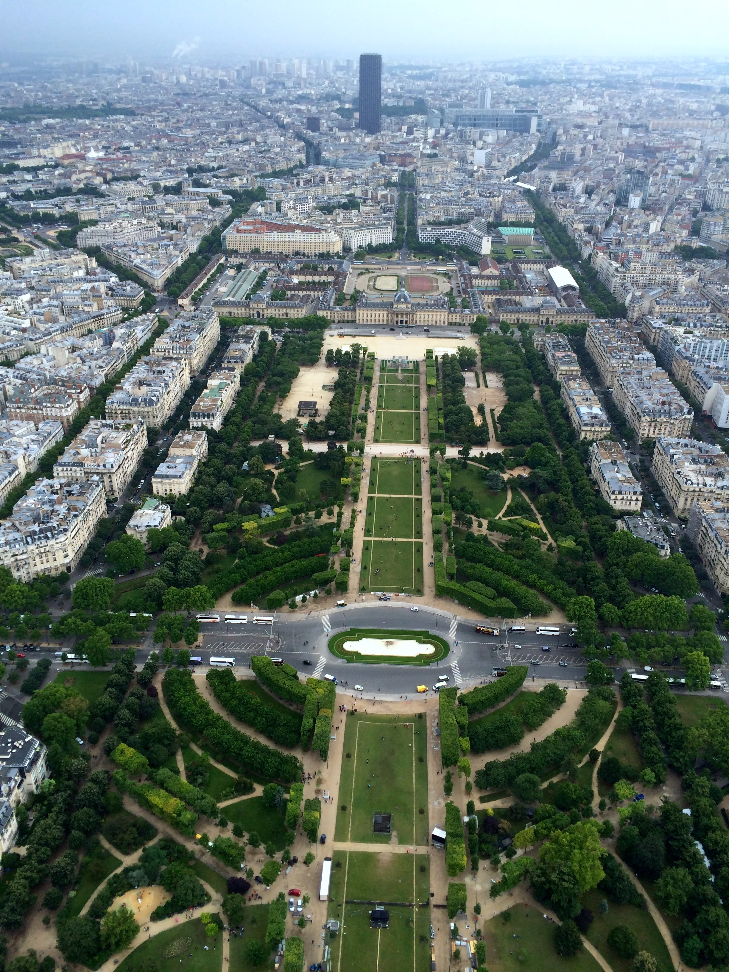 View from Eiffel Tower on Champ de Mars